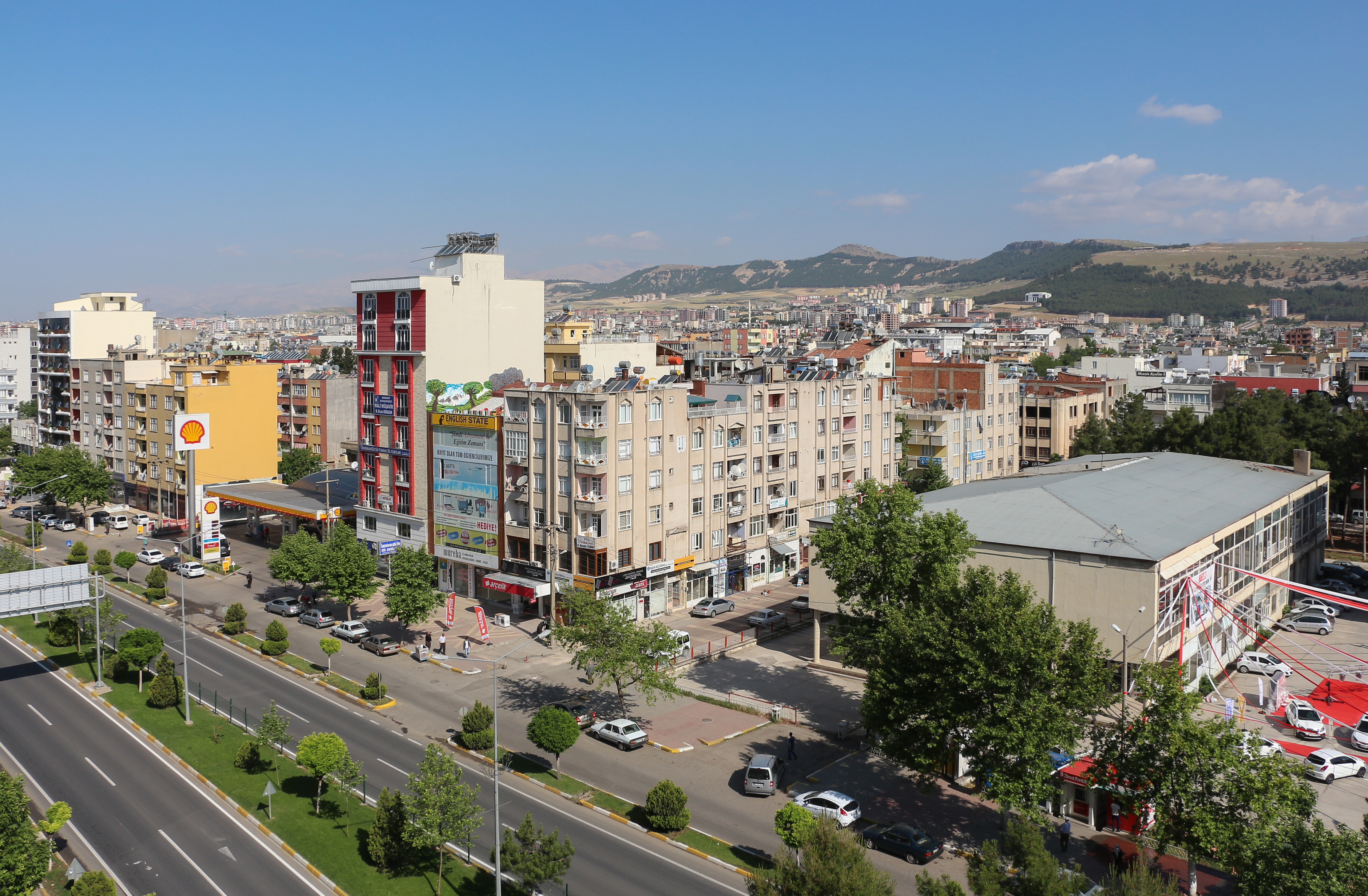 Atatürk Boulevard in Adiyaman, Turkey